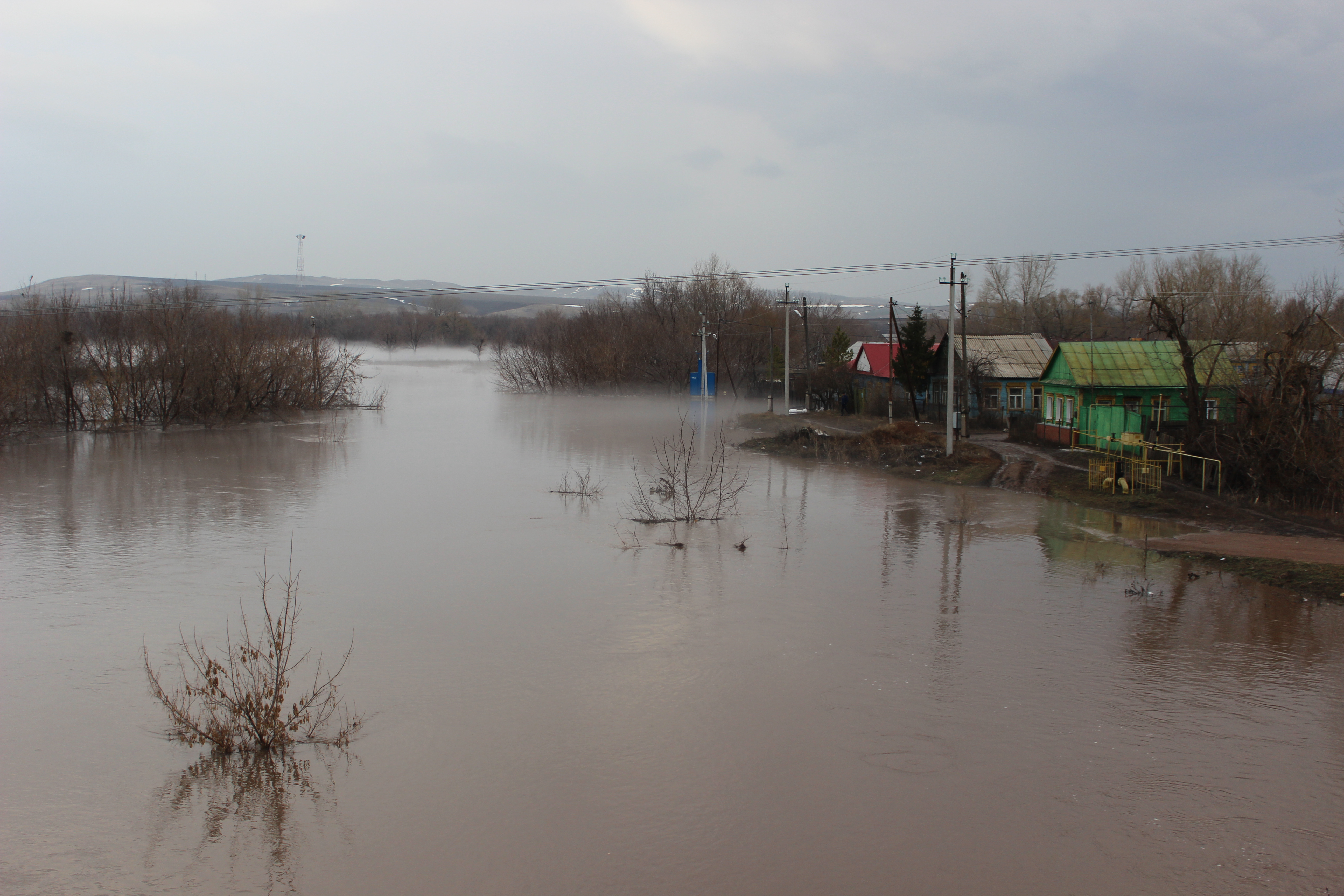 Sorochinsk. Old Bridge. The flood of 2013.